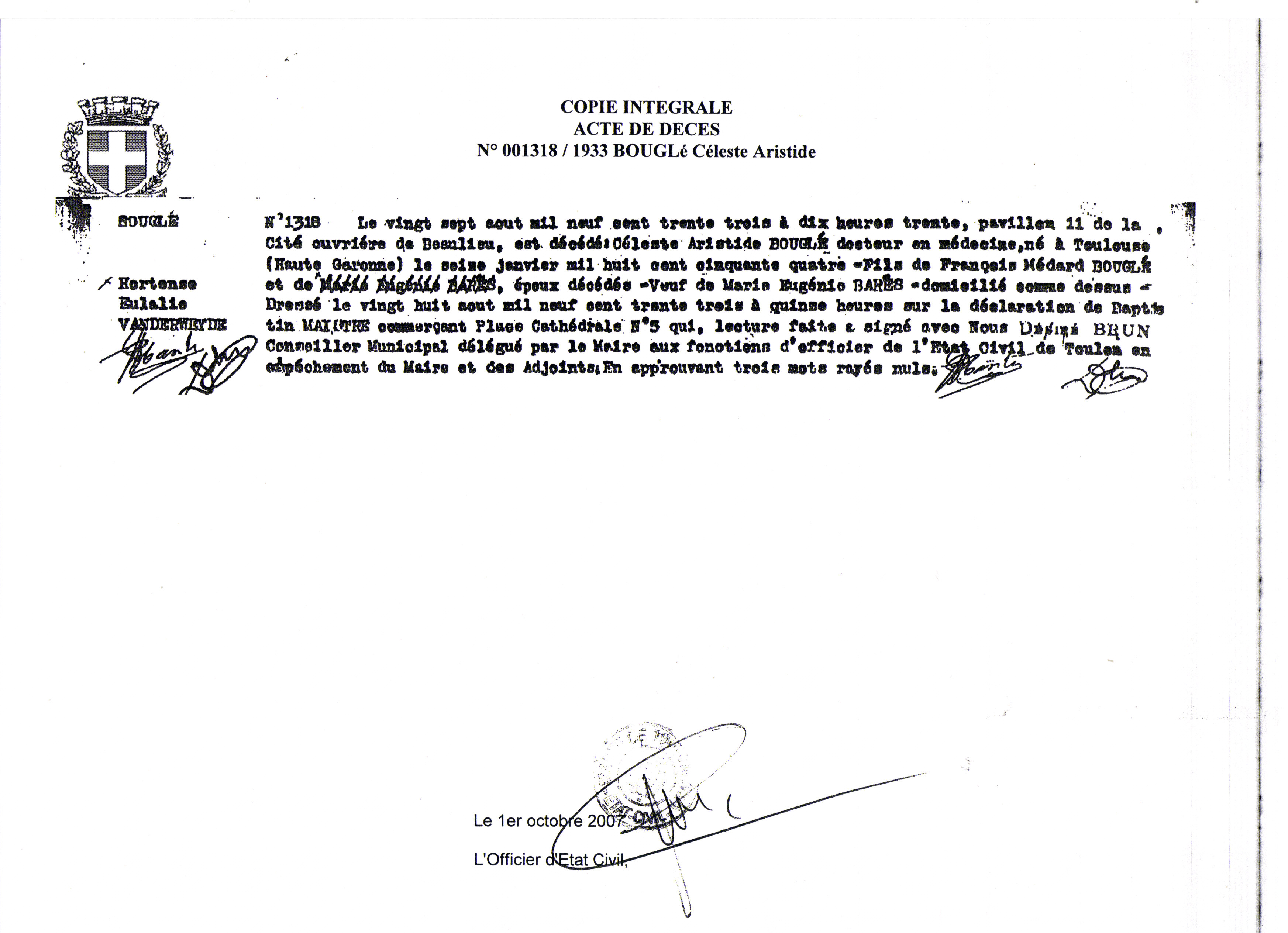 Death certificate of Céleste Aristide Bouglé, in August 27th, 1933